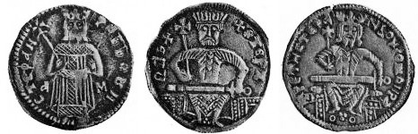 Novac Dragutina, Dusana, Stefana Decanskog